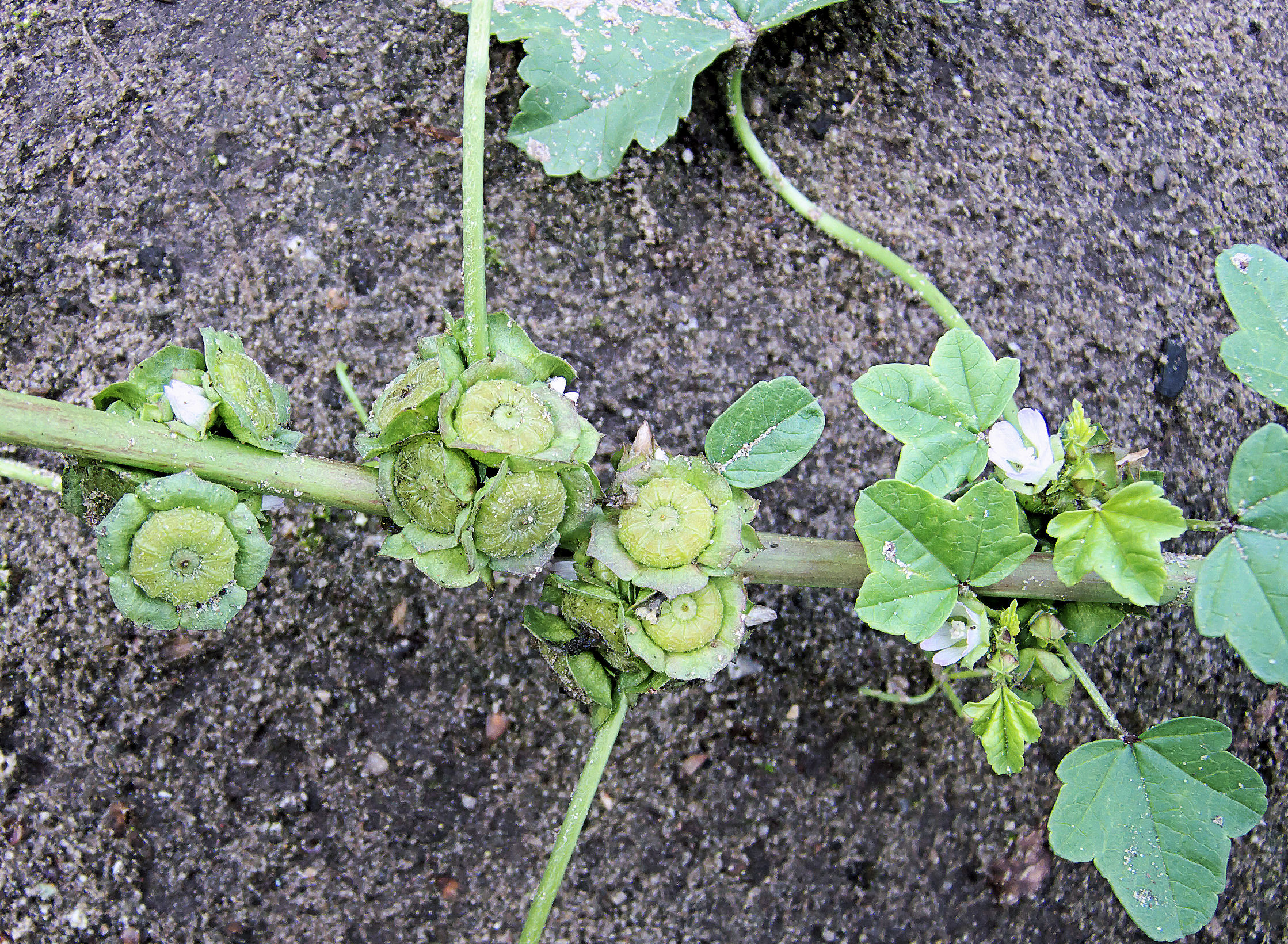 Malva neglecta fruits